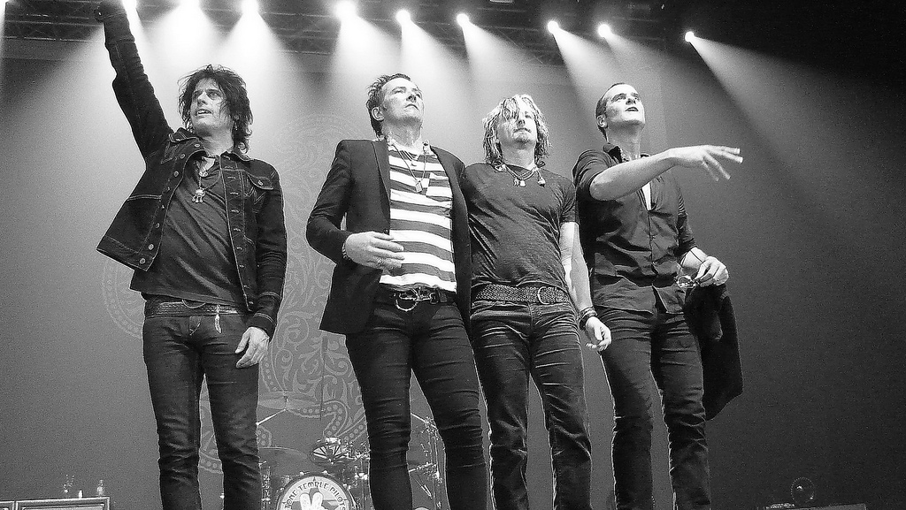 Dean DeLeo, Scott Weiland, Eric Kretz, and Robert DeLeo at the end of their performance. Venue was the Araneta Coliseum in Manila, Philippines (location source). Photographed on March 9, 2011 with a Panasonic DMC-FS3.